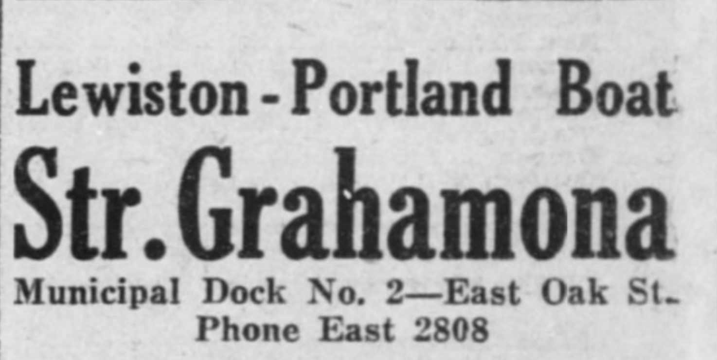 Advertisement for Portland-Lewiston route by sternwheeler Grahamona, placed in Morning Oregonian on June 17, 1919, page 20, col.7.